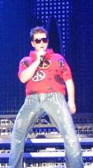 no original description